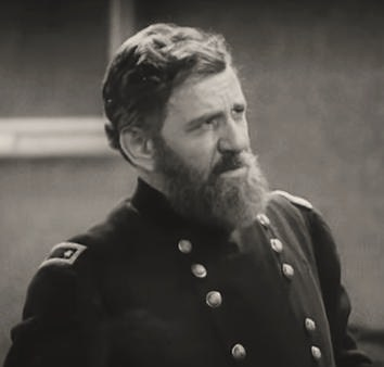 E. Alyn Warren (as General Ulysses S. Grant) in Abraham Lincoln - cropped screenshot